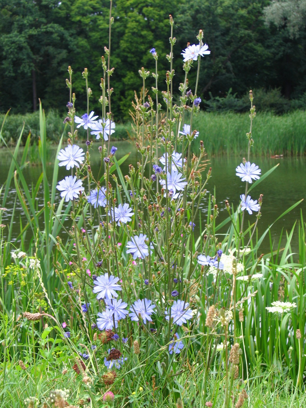 Cichorium intybus, Poland.